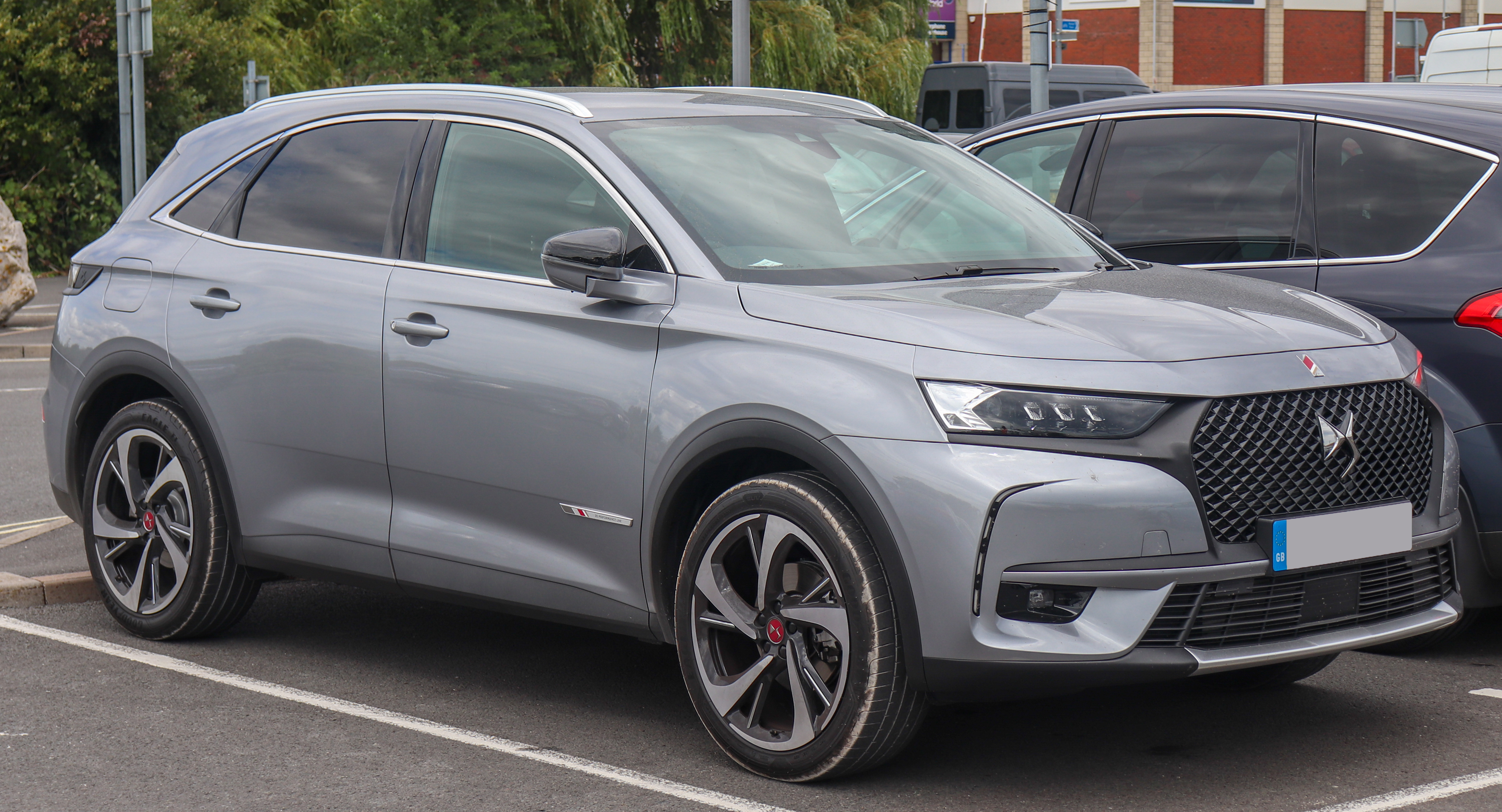 2018 DS 7 Crossback PERFORMANCE Line PureTech 1.6 Front Taken in Weymouth, Dorset